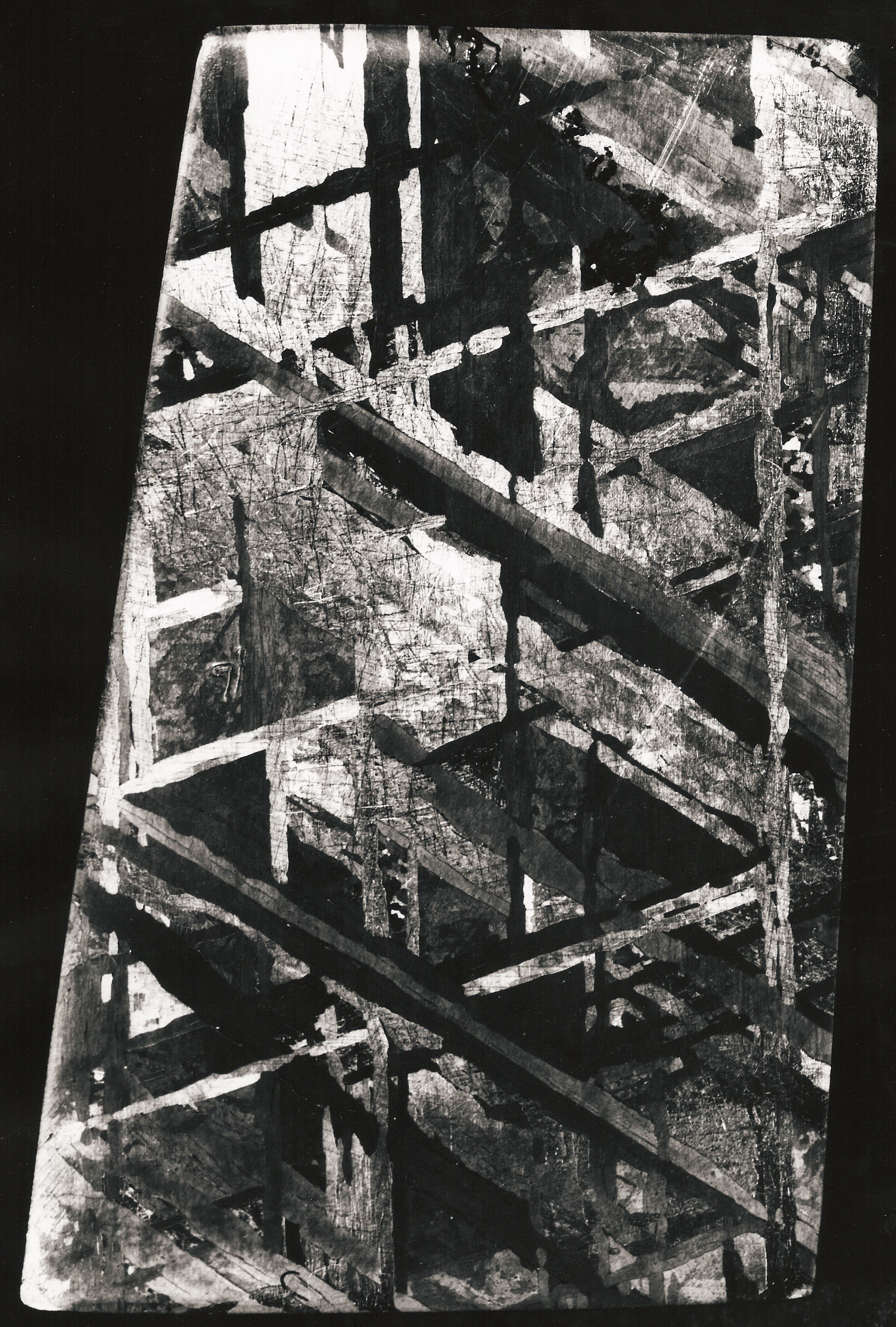 Polished meteorite with structures called Widmannstaettensche Figuren